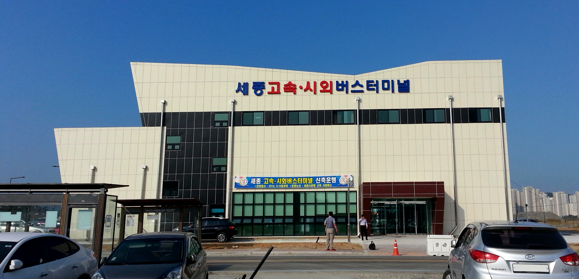 Sejong Intercity Bus Terminal(also called Transfer Terminal South) in Daepyeong-dong, Sejong, South Korea. Opened 15 Sep 2014, After the closing of the old Terminal in Hansol-dong.